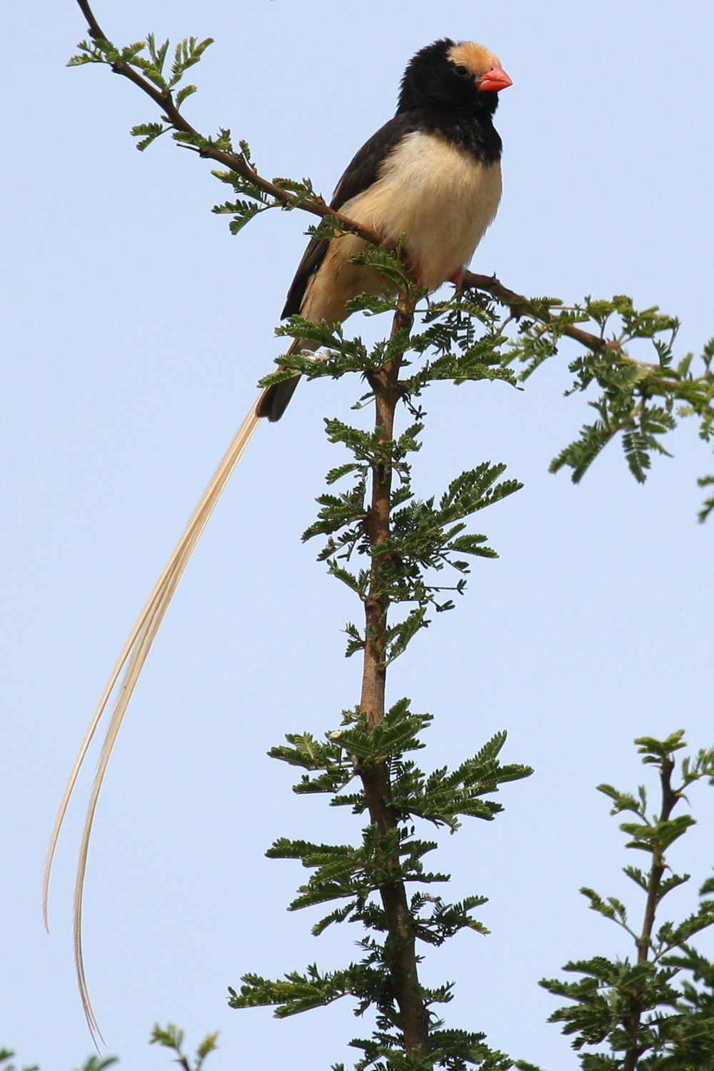 Straw-tailed whydah photographed in southern Ethiopia